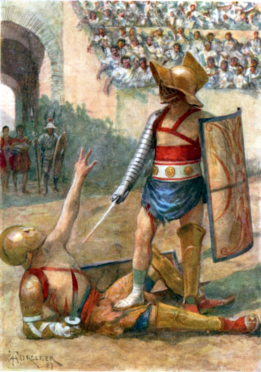 Gladiators reared in special schools were rigidly drilled. Drill was first introduced into the army by Rutilius in Gaul (117 B.C.) to deal with northerners, and under the Empire it became a regular feature. In this picture the victor is a Samnite who has overcome a Thracian; each is armed after the manner of his people, and both – be it noted – carry the rectangular shield adopted later in the Roman army.